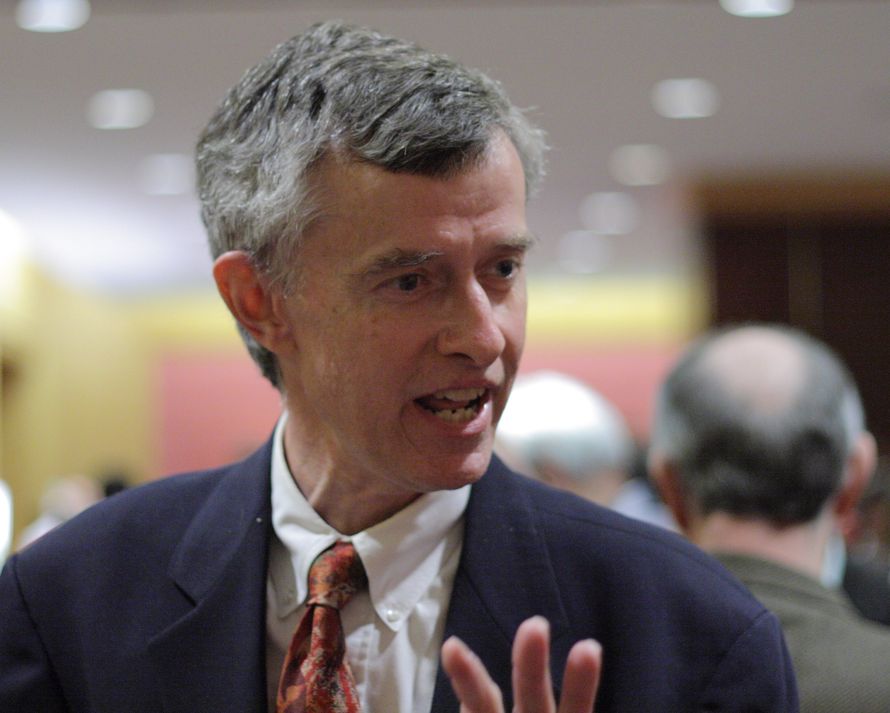 Historian Philip J. Pauly, at the 2007 History of Science Society meeting